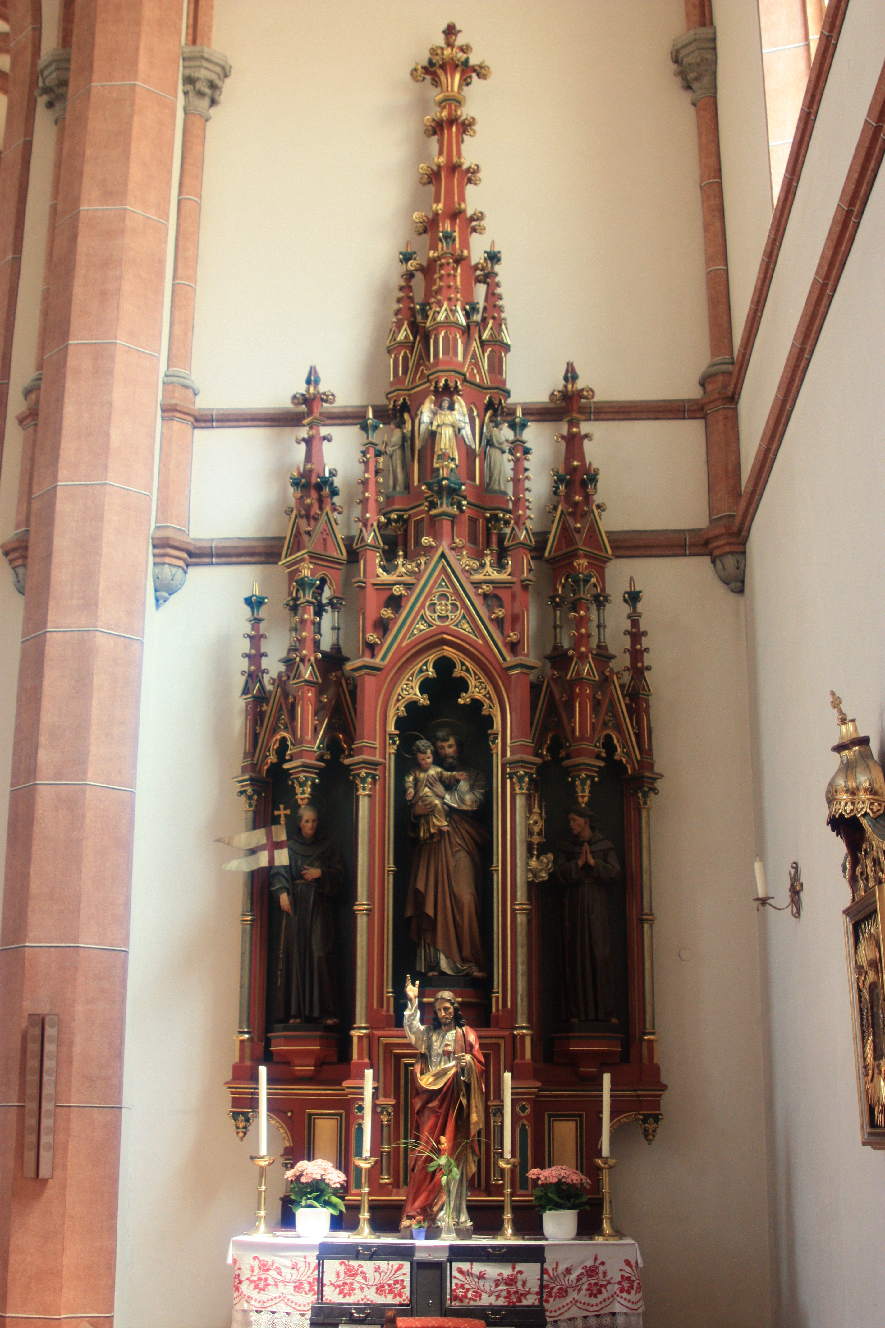 Parish church Saint Nikolaus: Right side altar Street:Nikolaiplatz Community:Villach